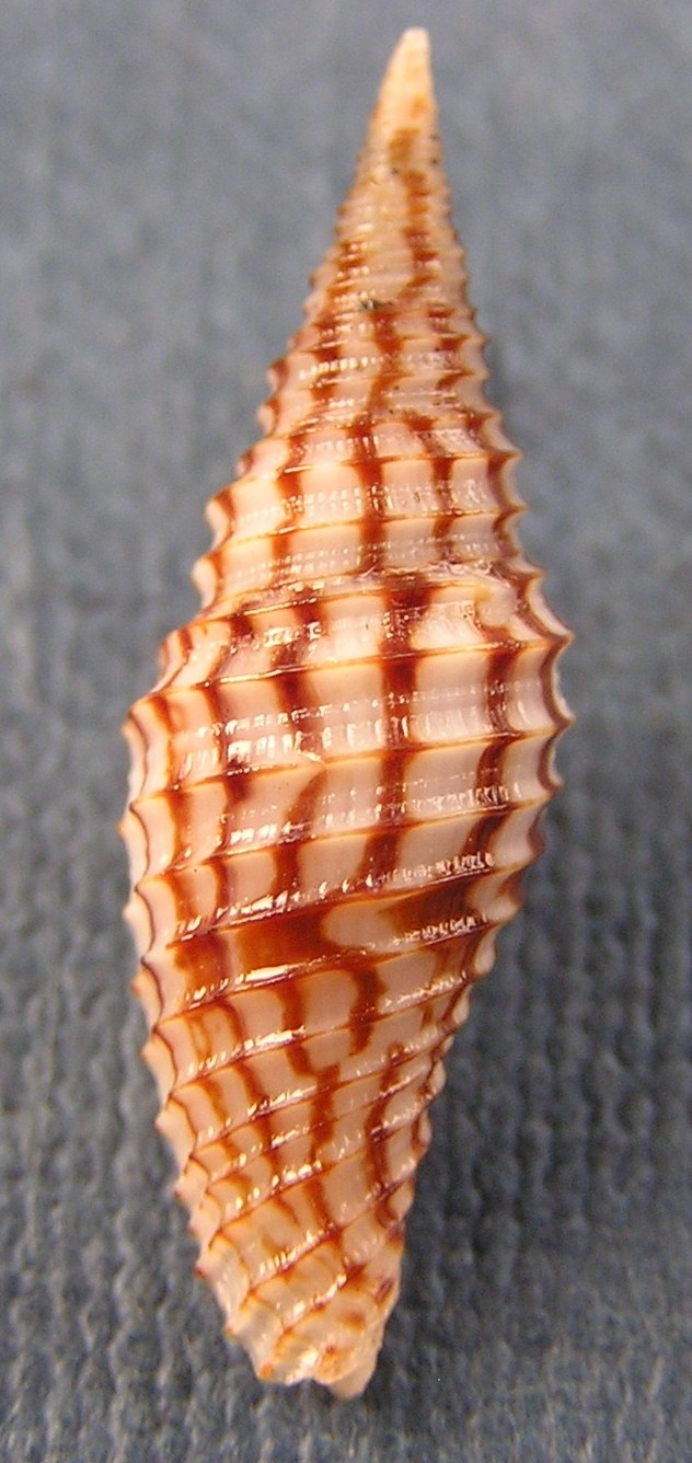 Subcancilla hrdlickai Salisbury, 1994, a sea snail from the family Mitridae; Philippines